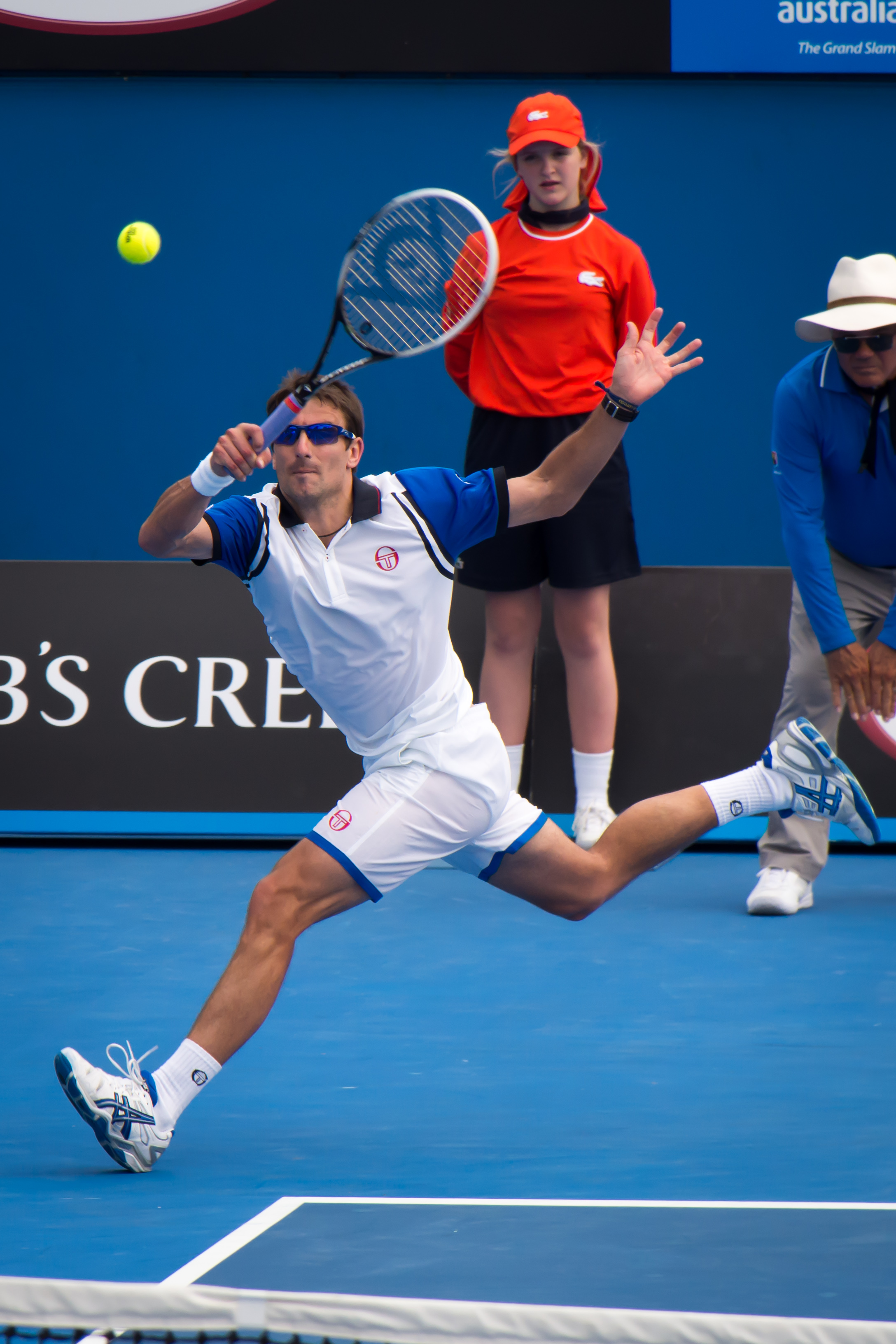 Tommy Robredo (ESP) [17] during his 2nd round 4-set win to Julien Benneteau (FRA) at the 2014 Australian Open on Show Court 2.